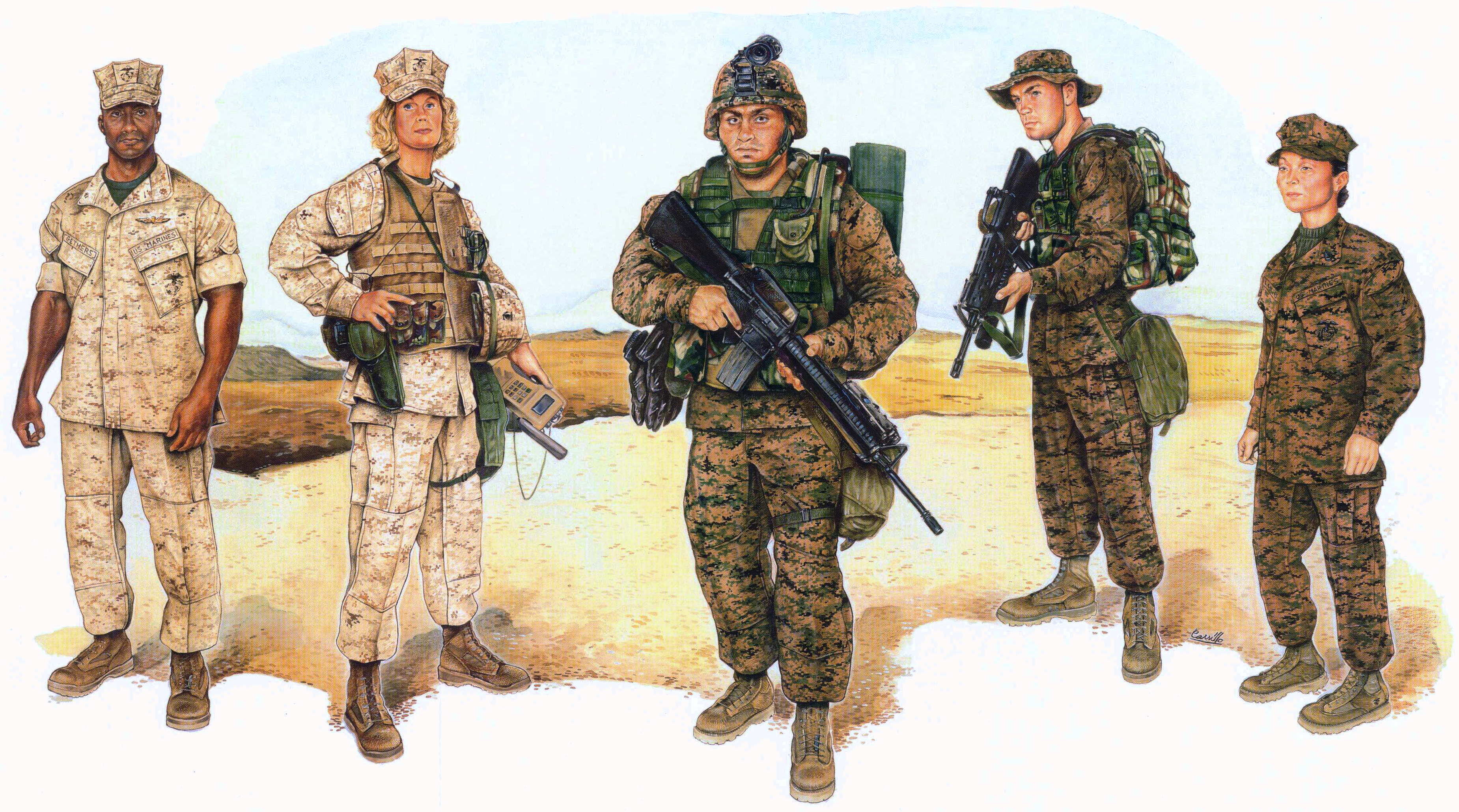 A 2003 drawing of the United States Marine Corps Combat Utility Uniform (MCCUU) in MARPAT, drawn by John M. Carrillo.